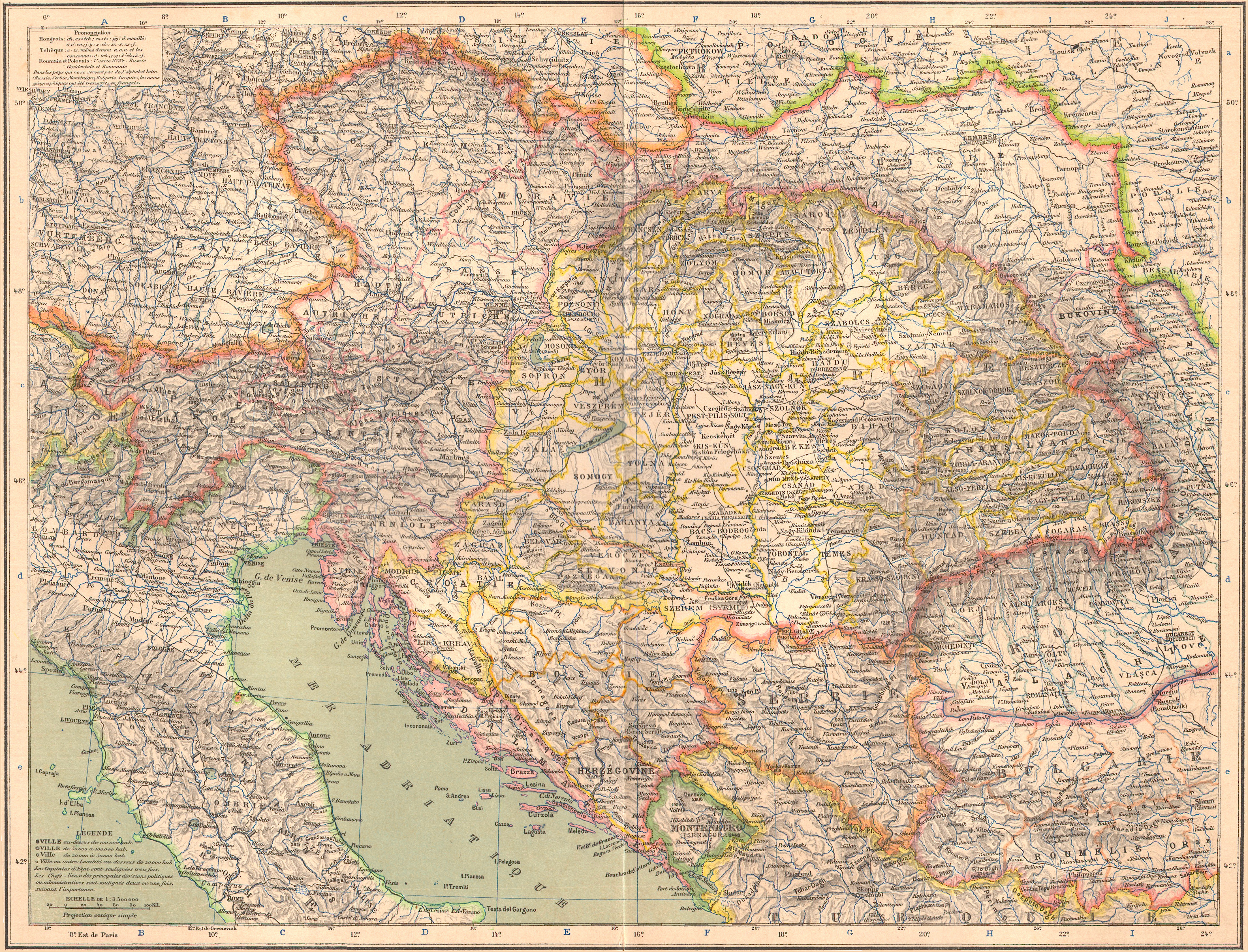 French map of Austria-Hungary 1887. Pink : Cisleithania. Yellow : Transleithania. Orange : Ottoman Bosnia under austrian-hungarian occupation.